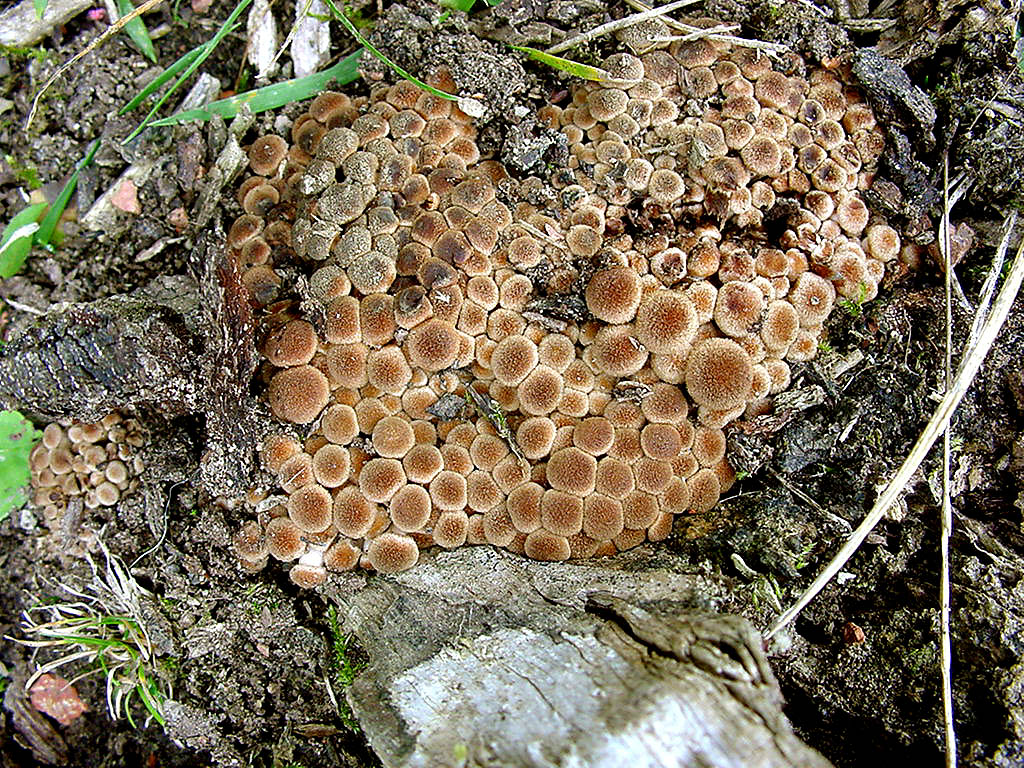 mushroom on dead wood, Forest of Rihoult-Clairmarais near Saint-Omer in the north of France.